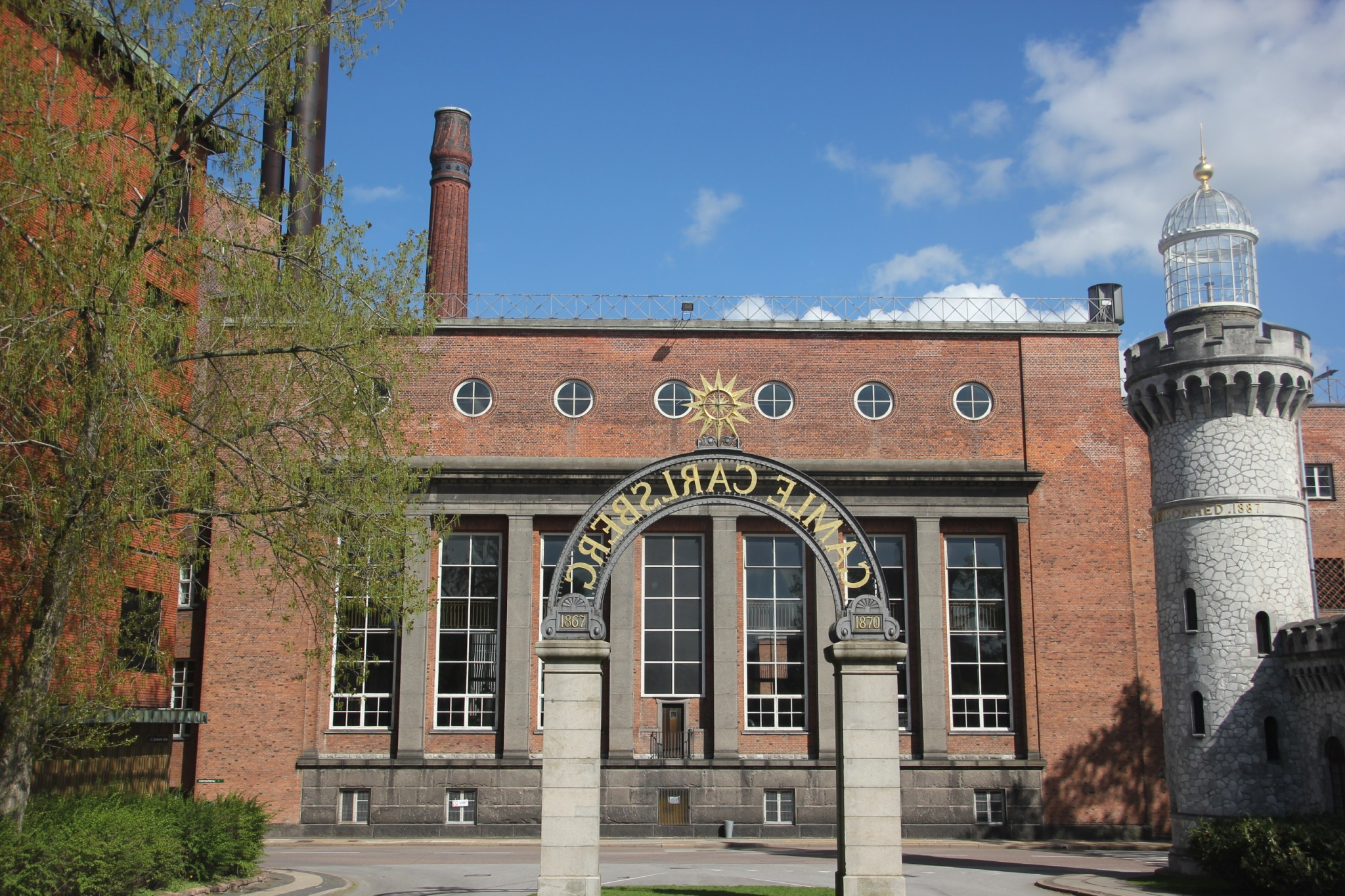 The Stjerneporten gate and the lighthouse with the power station as a backdrop in the Carlsberg district of Copenhagen, Denmark